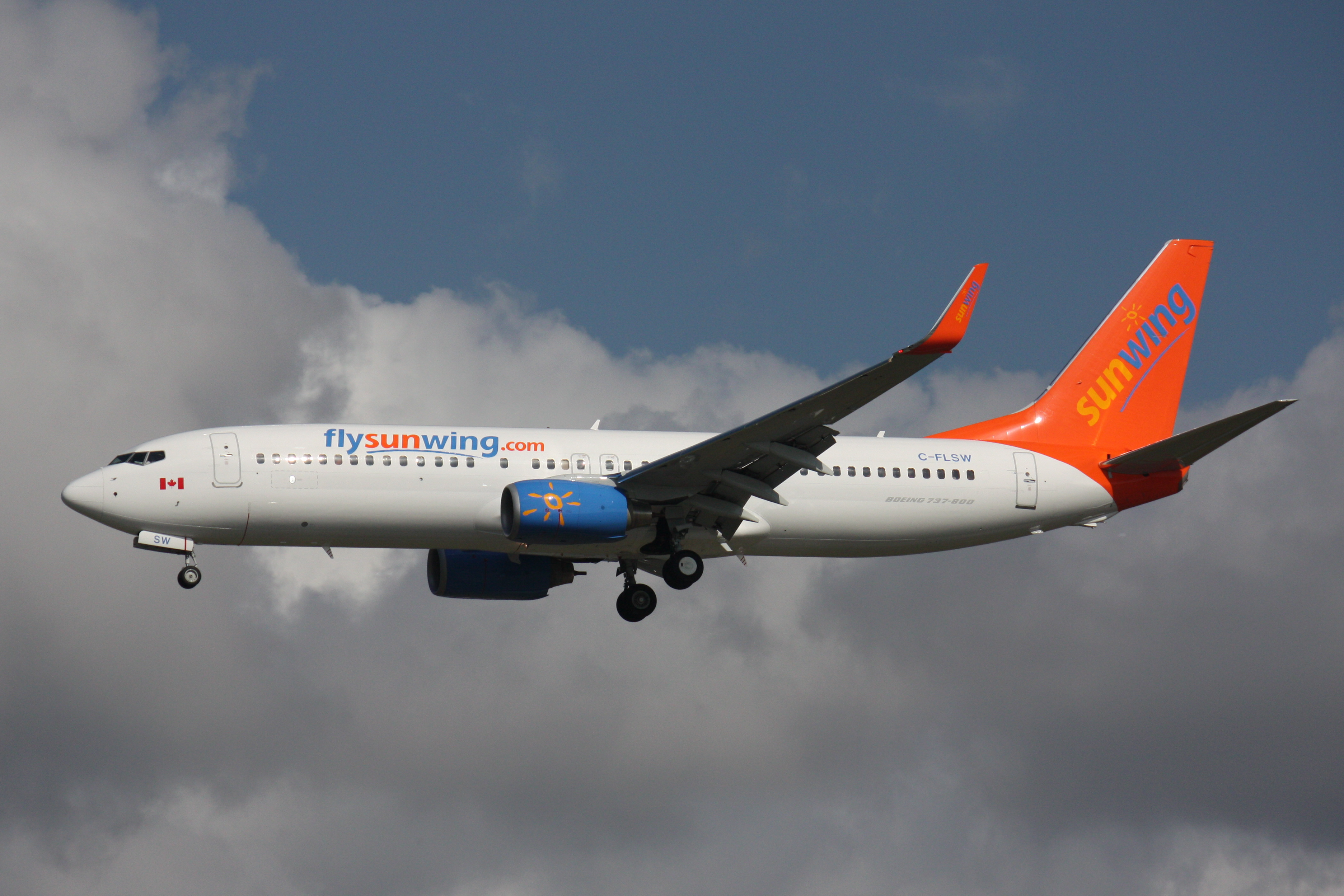 A Sunwing Airlines Boeing 737-8HX landing at Vancouver International Airport